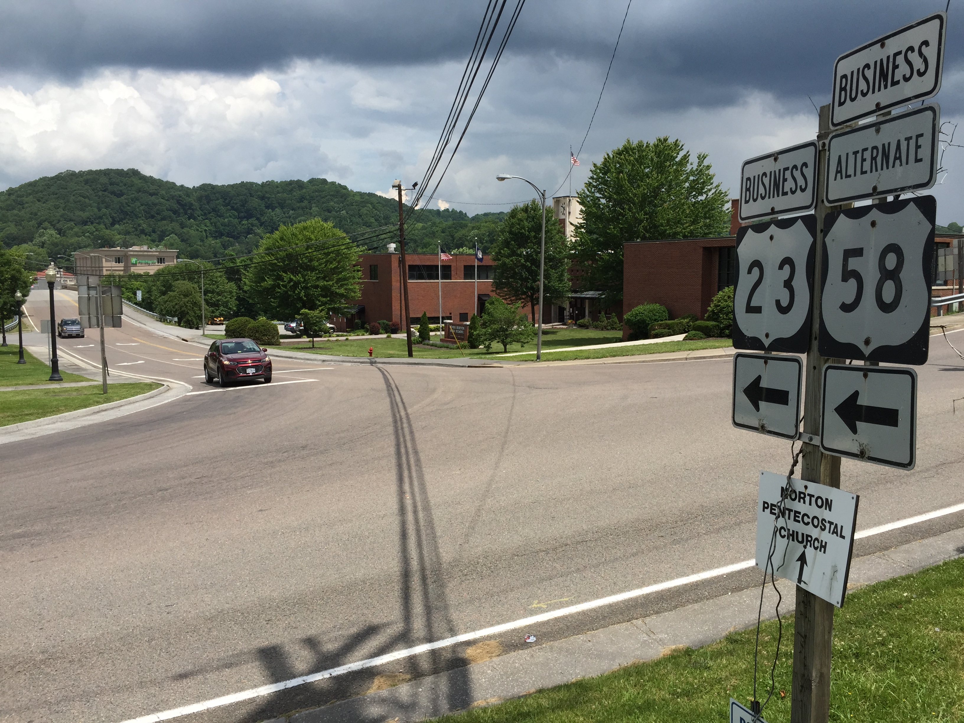 View east along U.S. Route 58 Alternate Business (11th Street) at Kentucky Avenue in Norton, Virginia